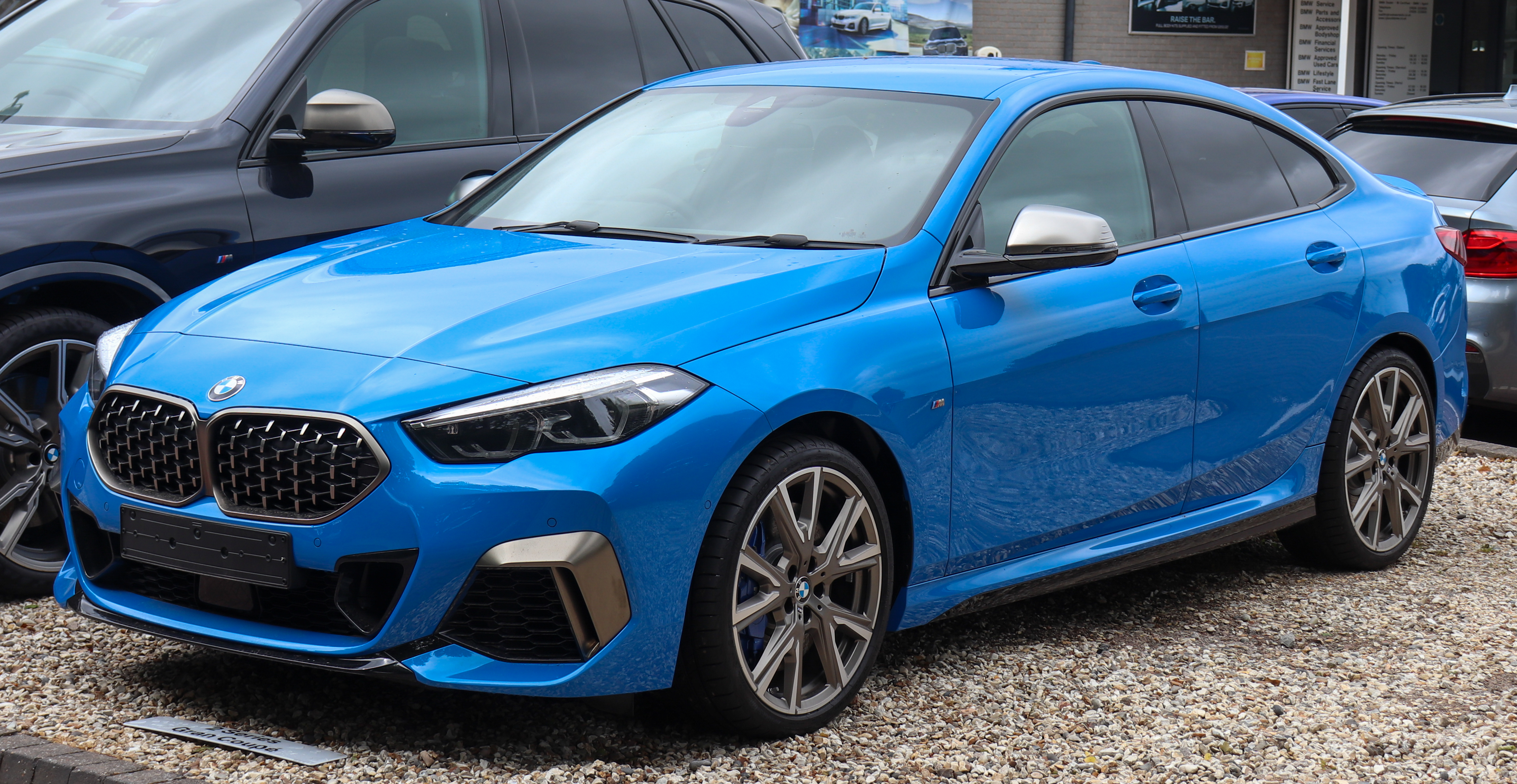 2020 BMW M235i xDrive Gran Coupe Front Taken in Leamington Spa